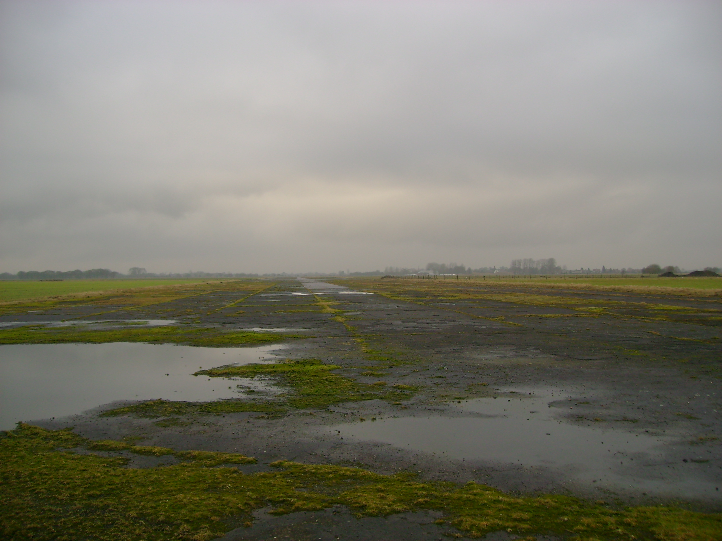 Burn Airfield. From Northeast Corner. This runway goes off towards the southwest.